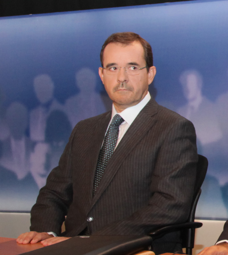 Journalist Pavlos Tsimas at the six party leaders' televised debate ahead of the 2009 Greek legislative elections.